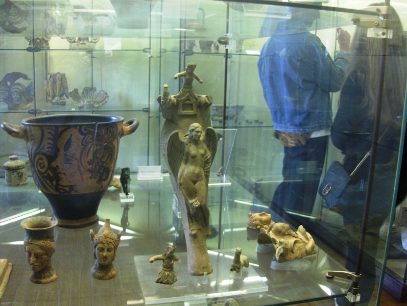 Civita Castellana fortress museum